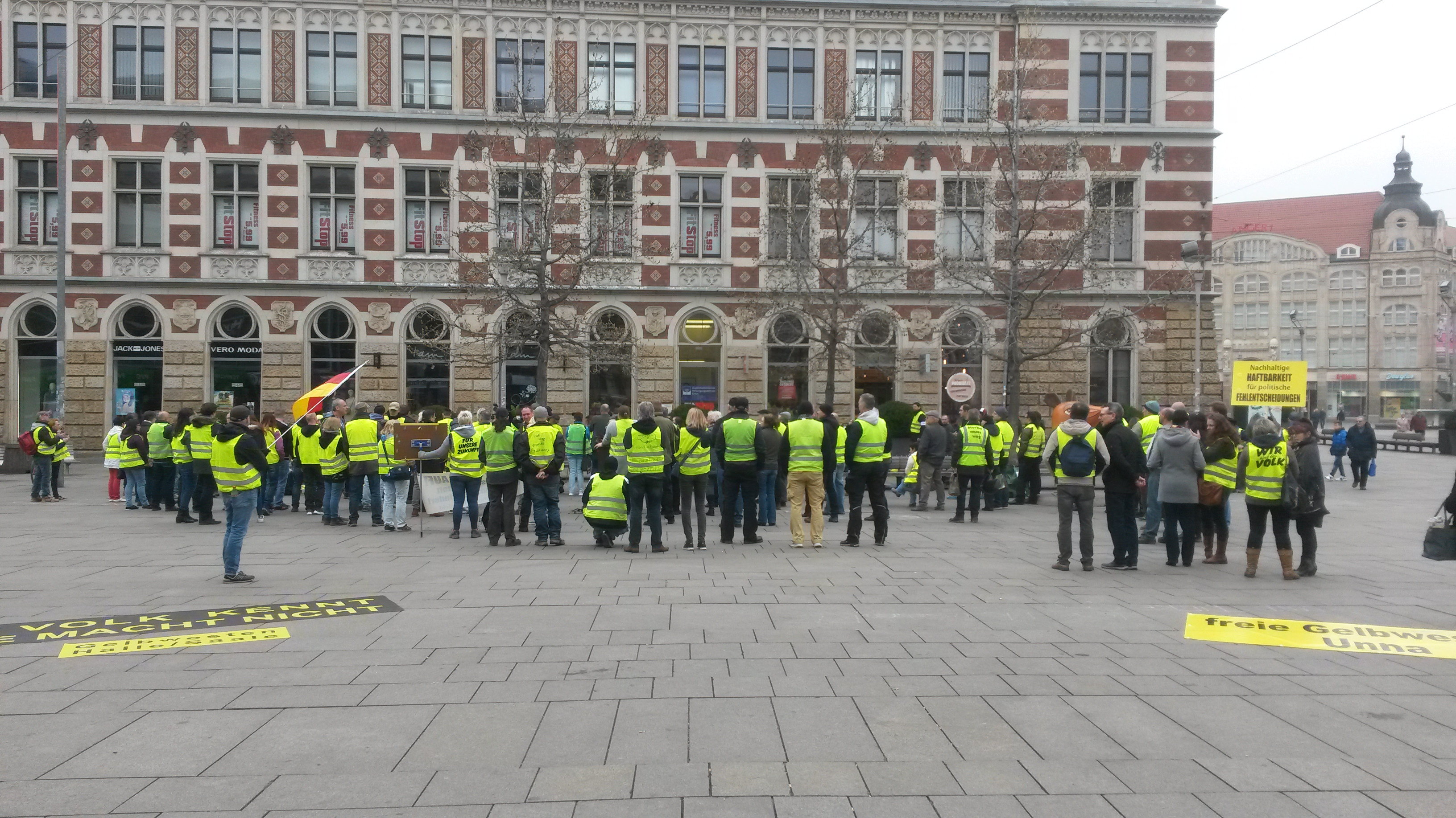 Demonstration of German "Yellow vests" in Erfurt (capital of Thuringia) on March 24, 2019. The slogans say that the German government has made unwise decisions.